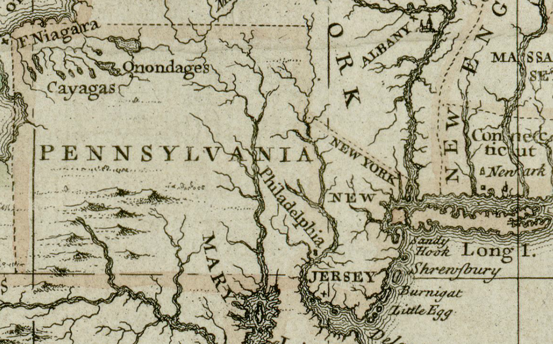 This is a section of a map that is part of the Darlington map collection housed in the Archives Service Center, University Library System, University of Pittsburgh, [1] Pittsburgh, PA US The original map from which this portion was taken can be found here.